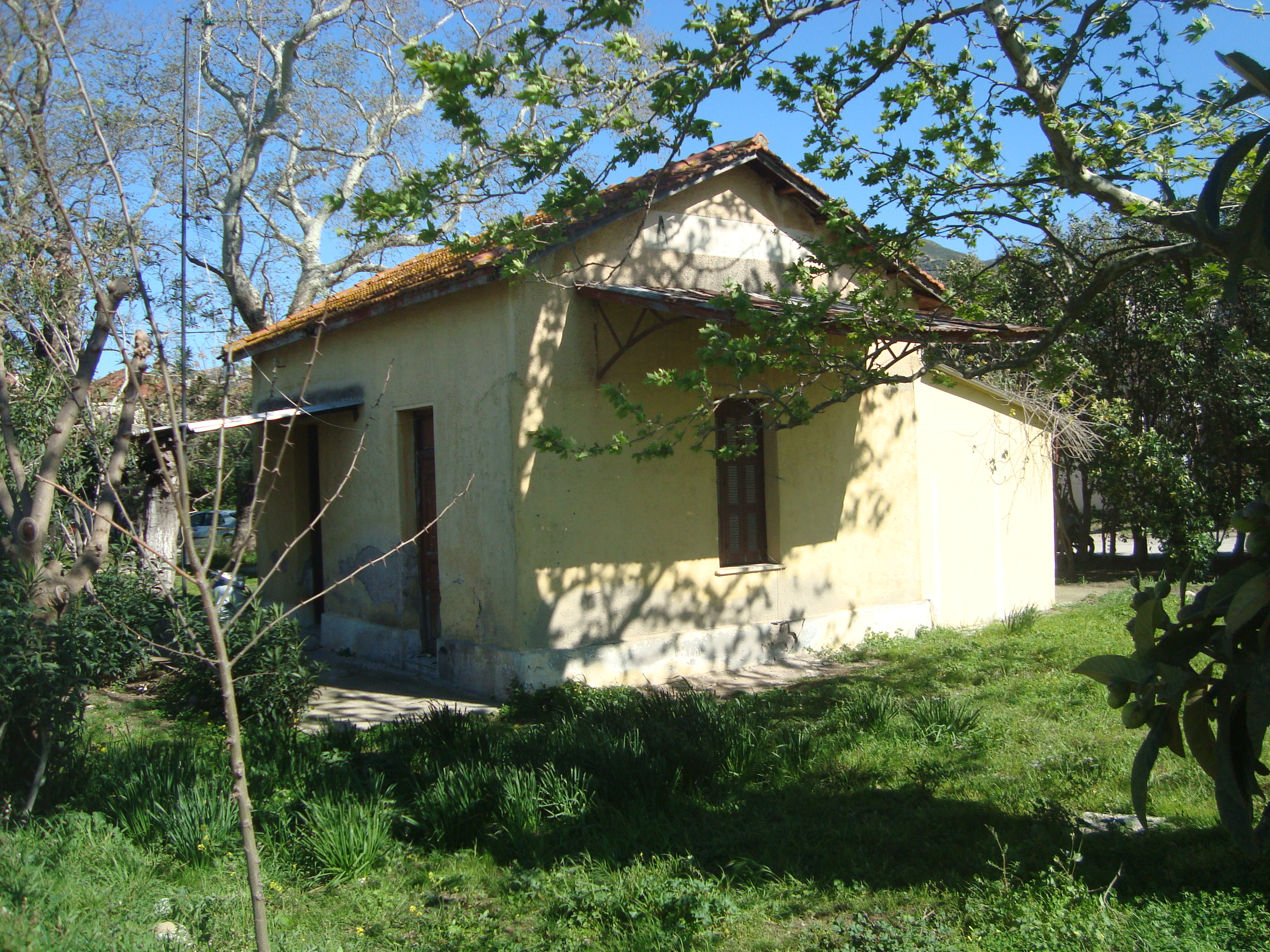 Agios Basilios Achaias train station